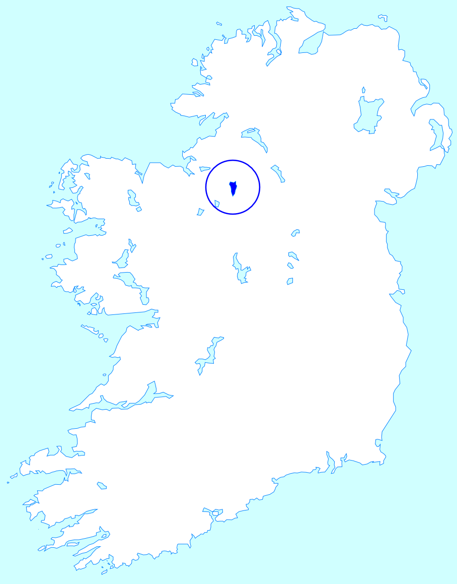 Location map of the Lough Allen in Ireland